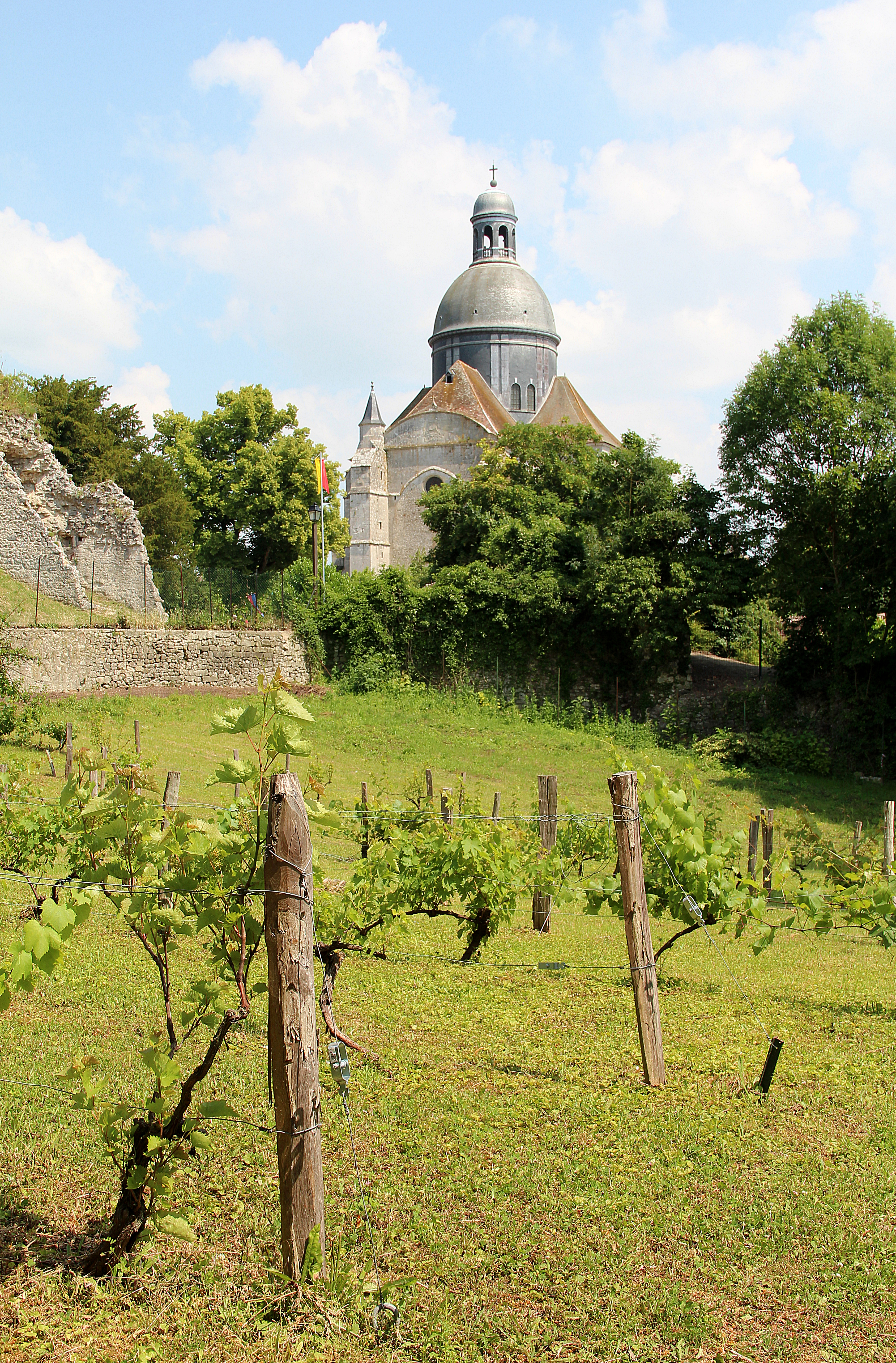 Provins (Île-de-France), the collegiate Church of Saint-Quiriace (12th century) in the upper town, seen from the rue de la Pie.